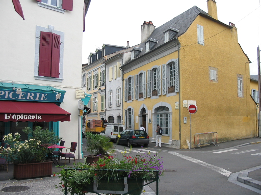 Birth house of Marshal Foch in Tarbes, Hautes-Pyrénées, France